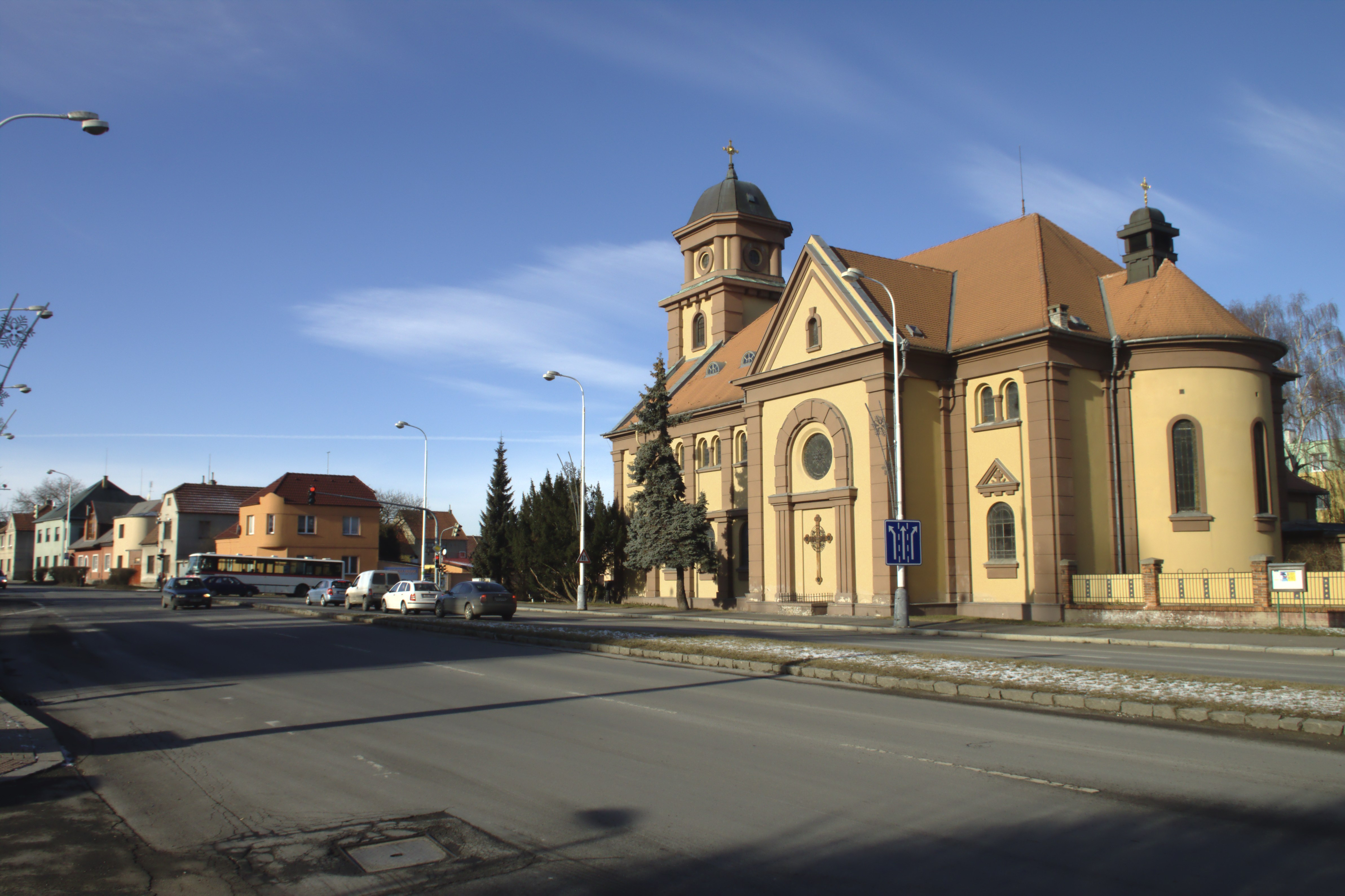 St. Václav (Wenceslaus) Church in Kladno-Rozdělov, CZ